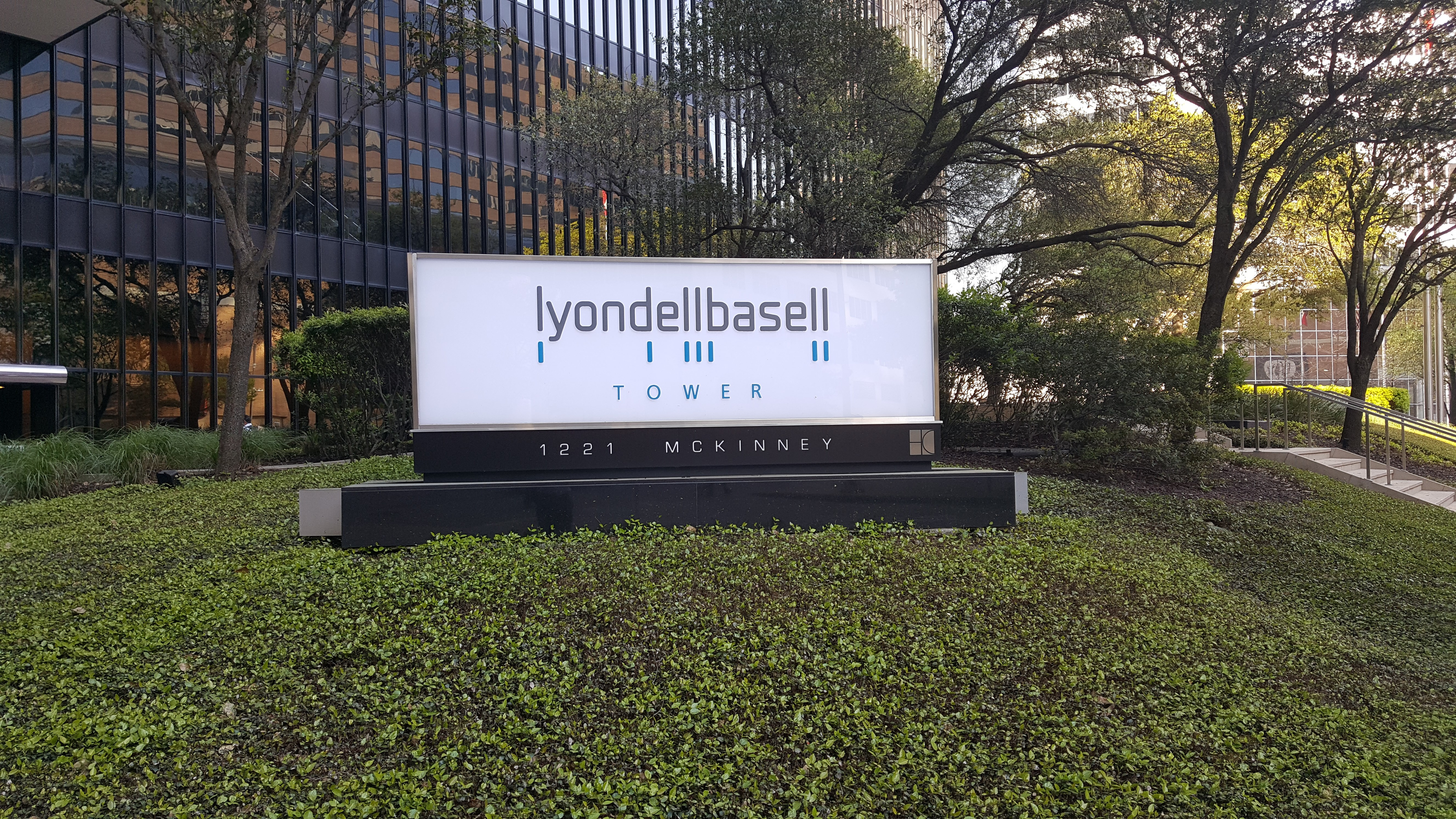 The sign in front of LyondellBasell headquarters in Houston, TX